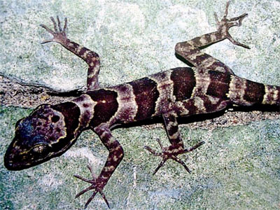 new gecko (Cyrtodactylus phongnhakebangensis) found in Phong Nha-Ke Bang National Park Category:Phong Nha-Ke Bang National Park